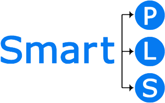 SmartPLS logo